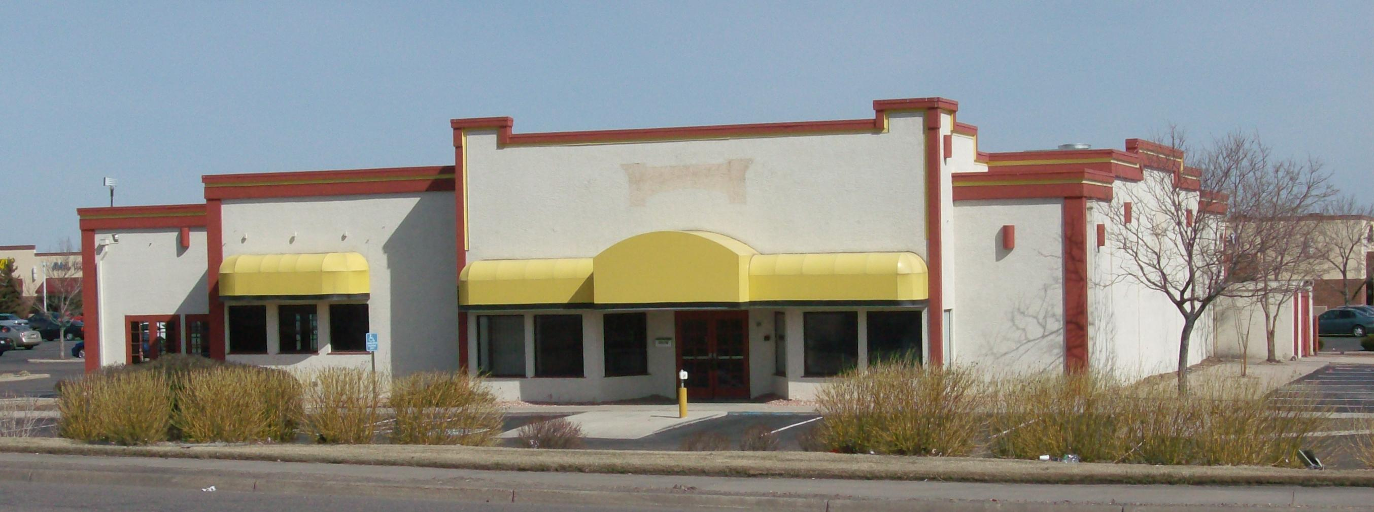 A closed Fuddruckers on S Wadsworth Blvd in Jefferson County, Colorado. This building was demolished the last week of March 2012 to make way for a Chase bank.